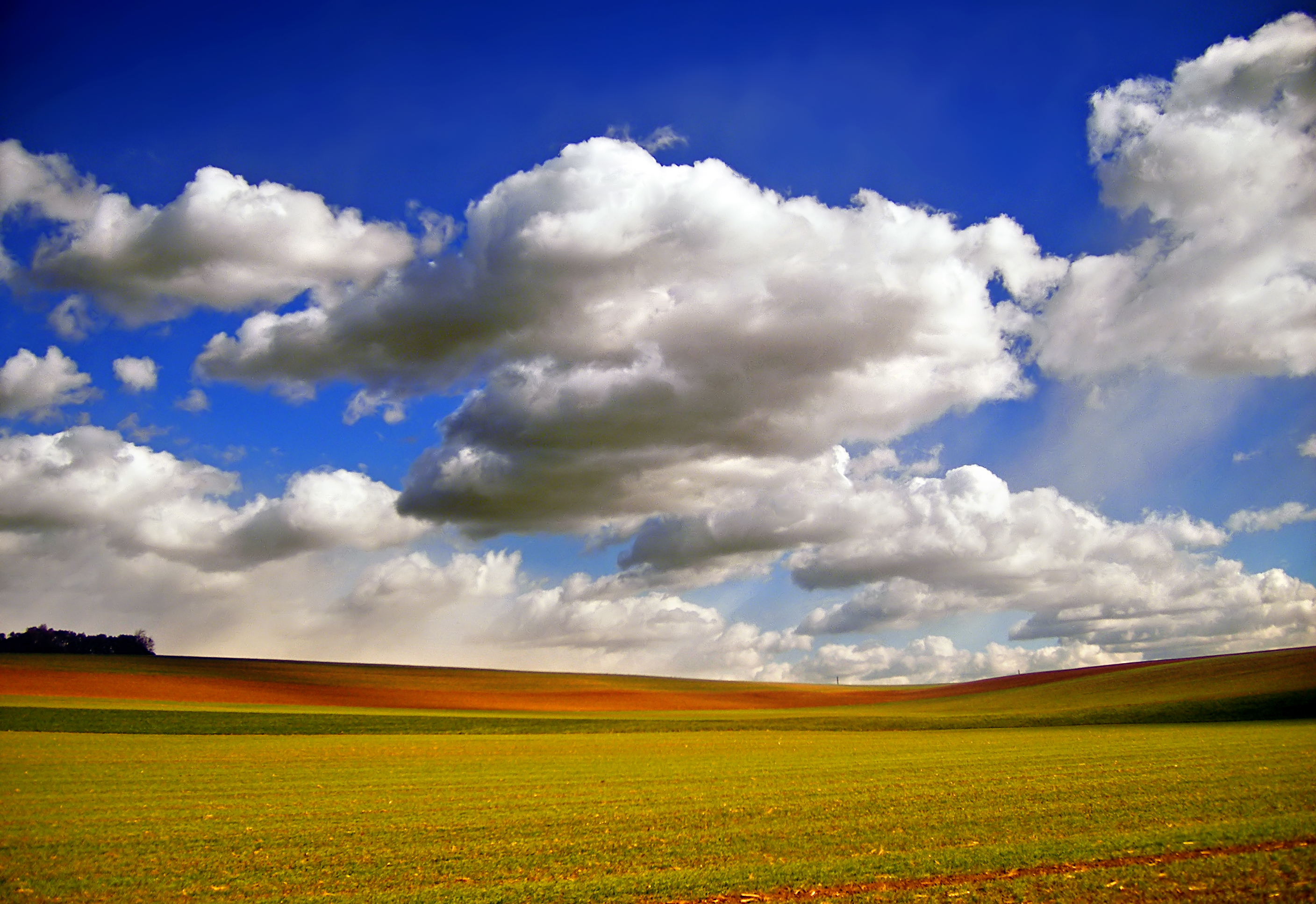 Field and sky, Weisenberg Township, Lehigh County. A cold front brought high winds and rapidly moving clouds, creating ever-changing light-and-shadow patterns across the field. (Other views here and here .) The high winds made using a tripod impossible.